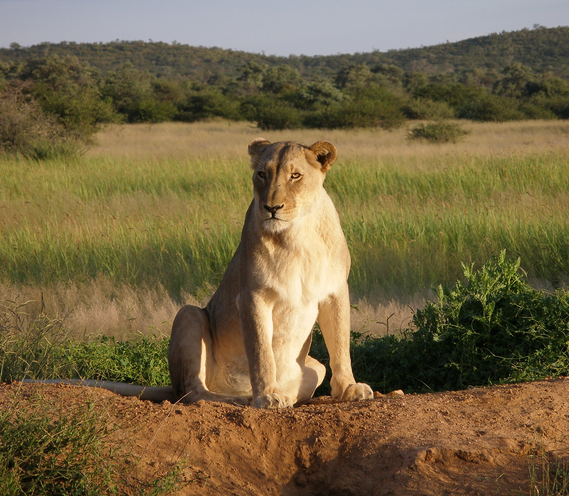 Lioness at Okonjima Lodge, Namibia